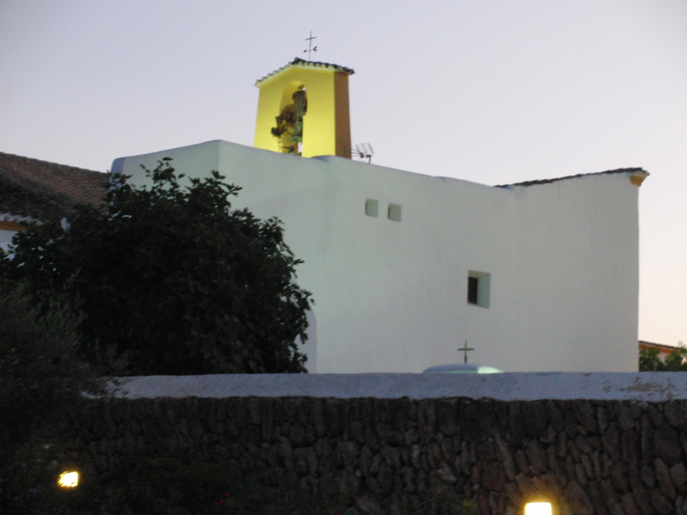 Church of Santa Gertrudis, Ibiza